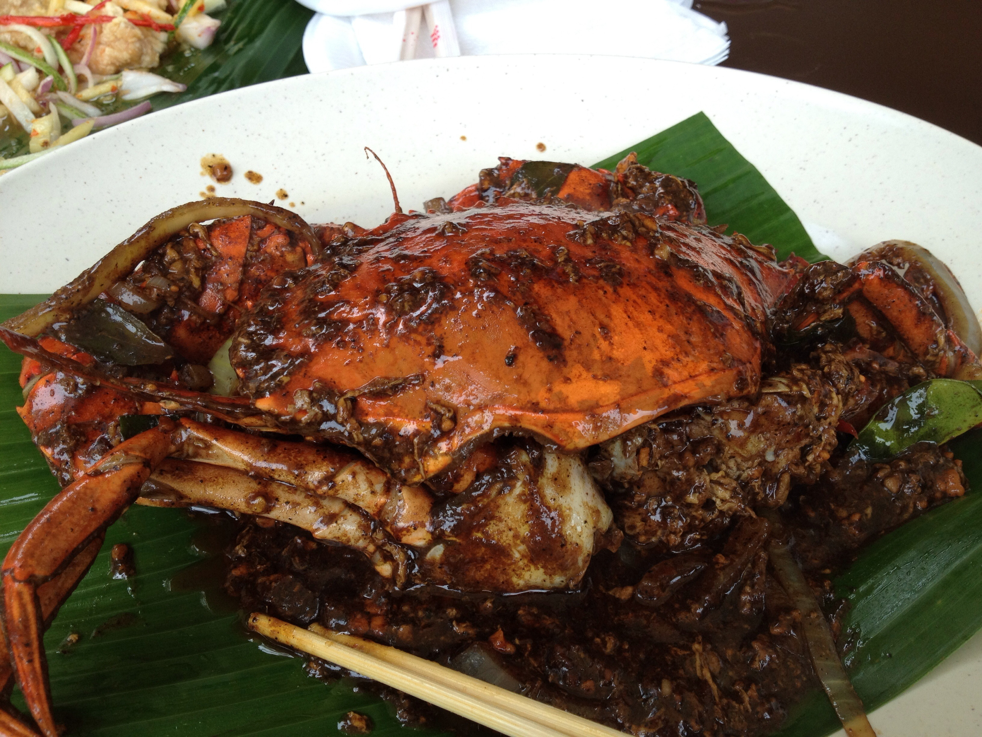 Black Peppered Crab